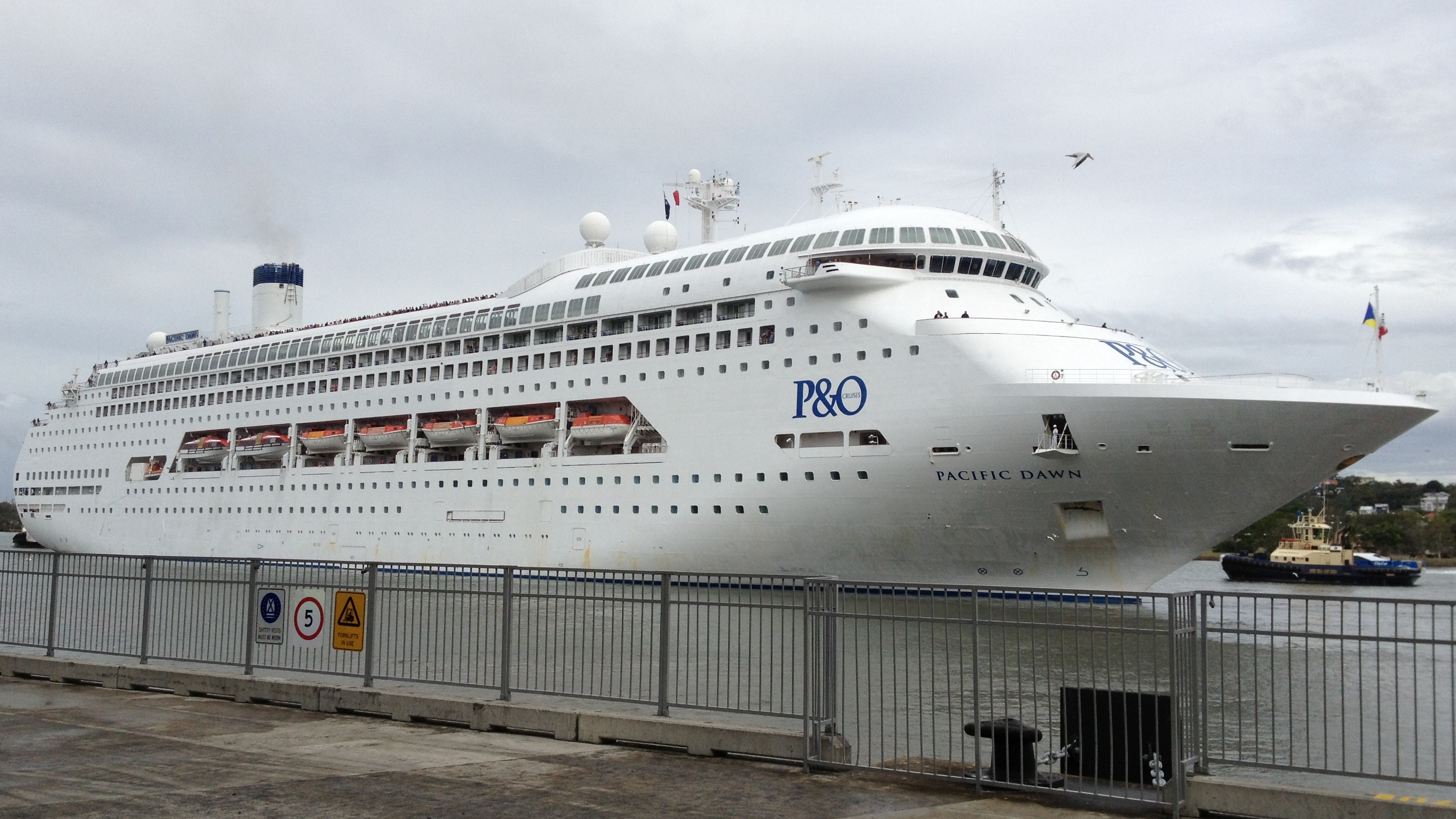 Pacific Dawn (ship) at Portside Wharf at Hamilton, Queensland